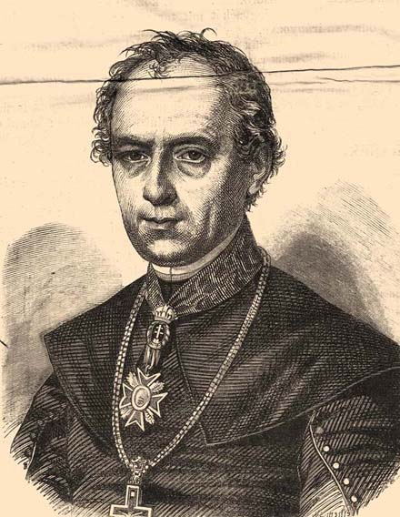 Portrait of Béla Bartakovics